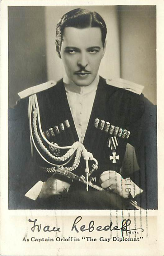 Postcard with the photograph of Ivan Lebedeff (18 June 1894 – 31 March 1953), Russian actor active in Hollywood between 1926 and 1953, in the movie The Gay Diplomat (1931).